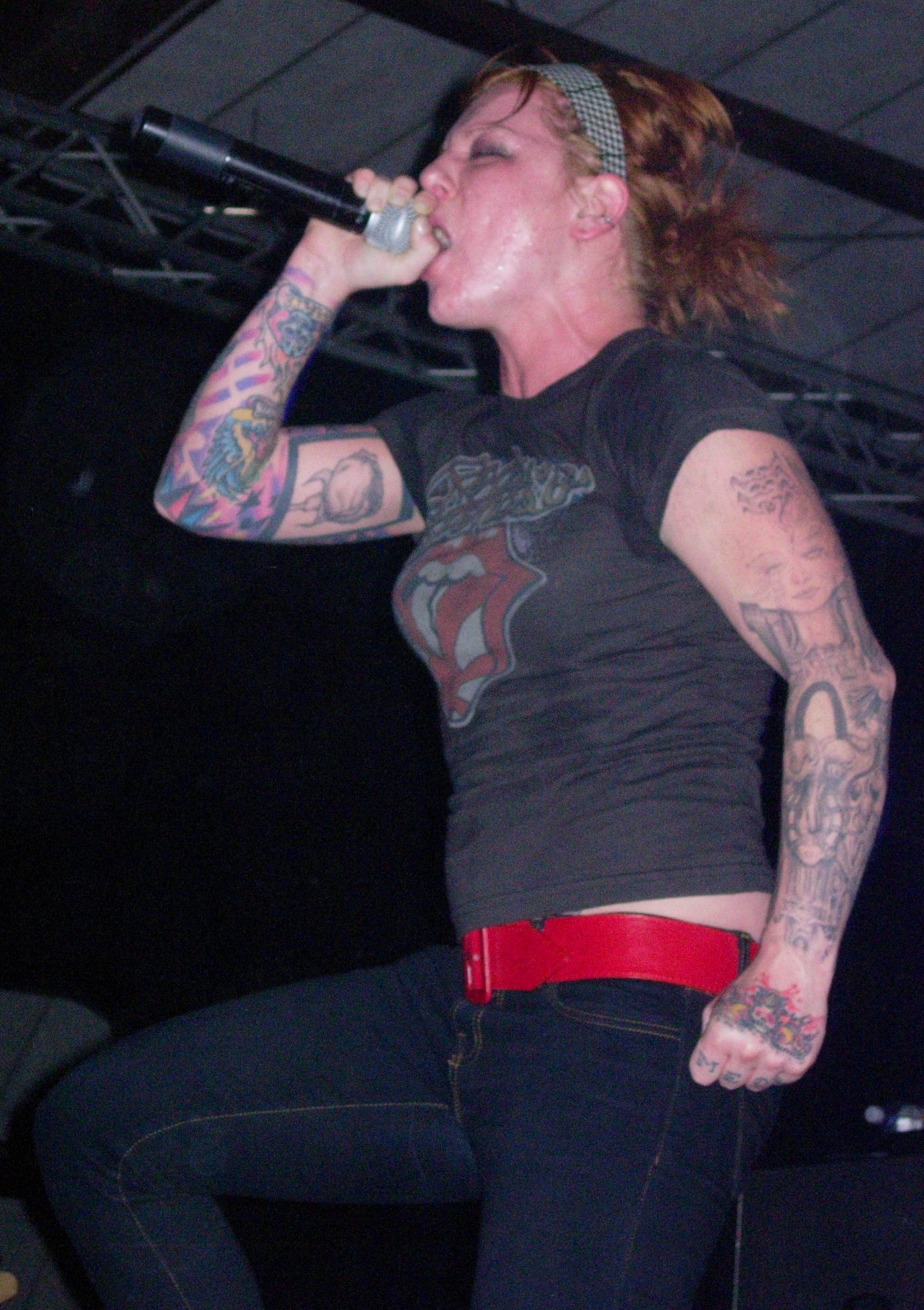 Candace Kucsulain from Walls of Jericho.